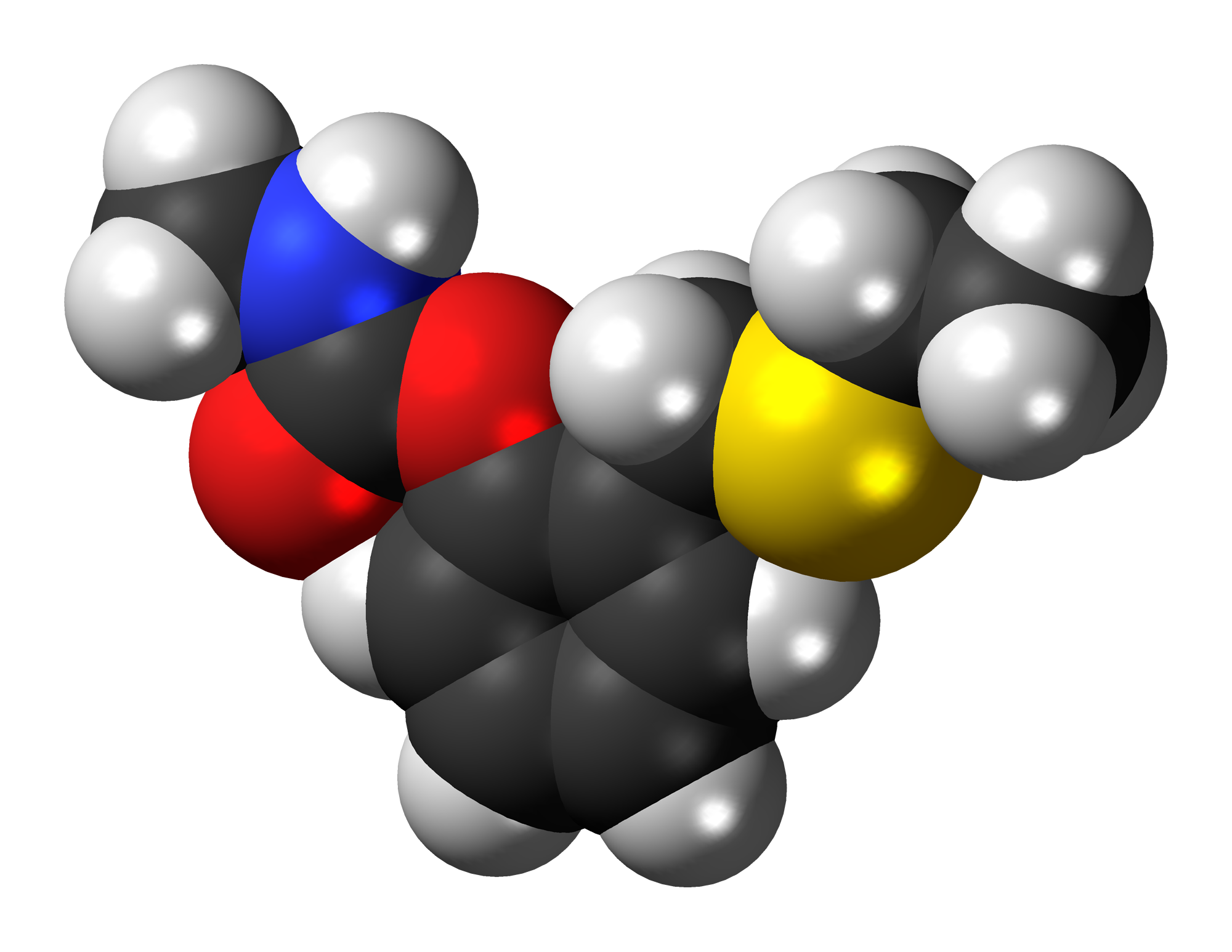 Space-filling model of the ethiofencarb molecule, an insecticide. Colour code: Carbon, C: black Hydrogen, H: white Oxygen, O: red Nitrogen, N: blue Sulfur, S: yellow